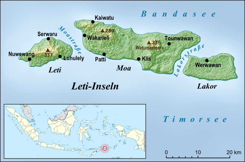 Map of Leti Islands